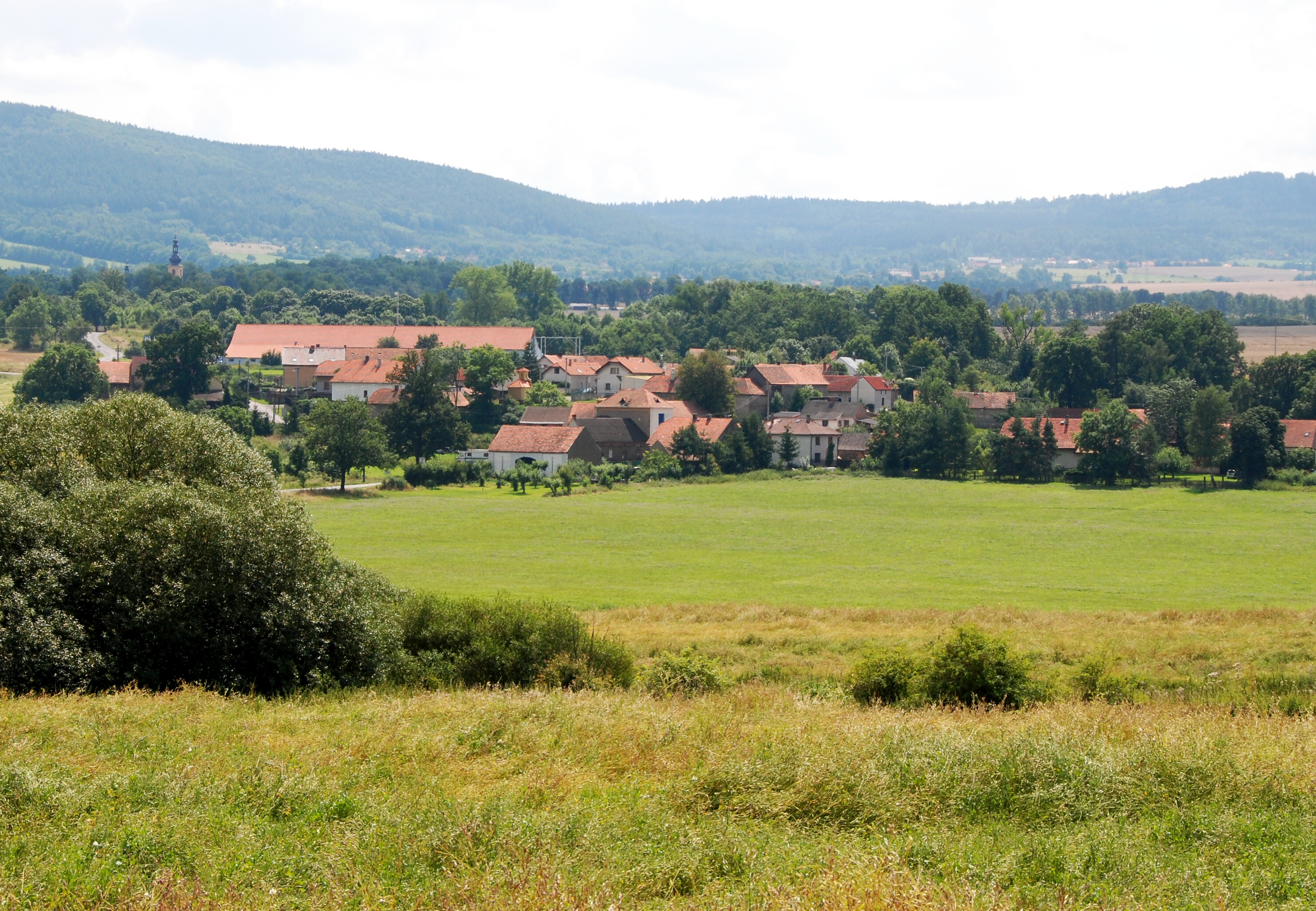 This photograph was taken within the scope of the second year of the 'Czech Municipalities Photographs' grant.